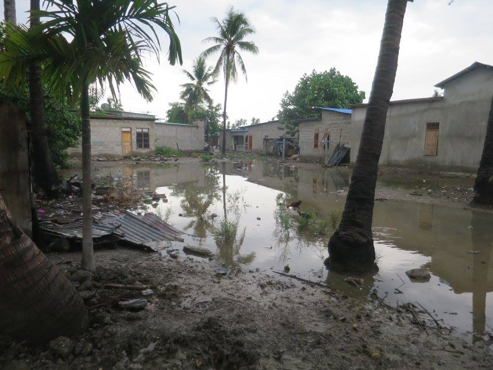 Bairro Pite after flooding